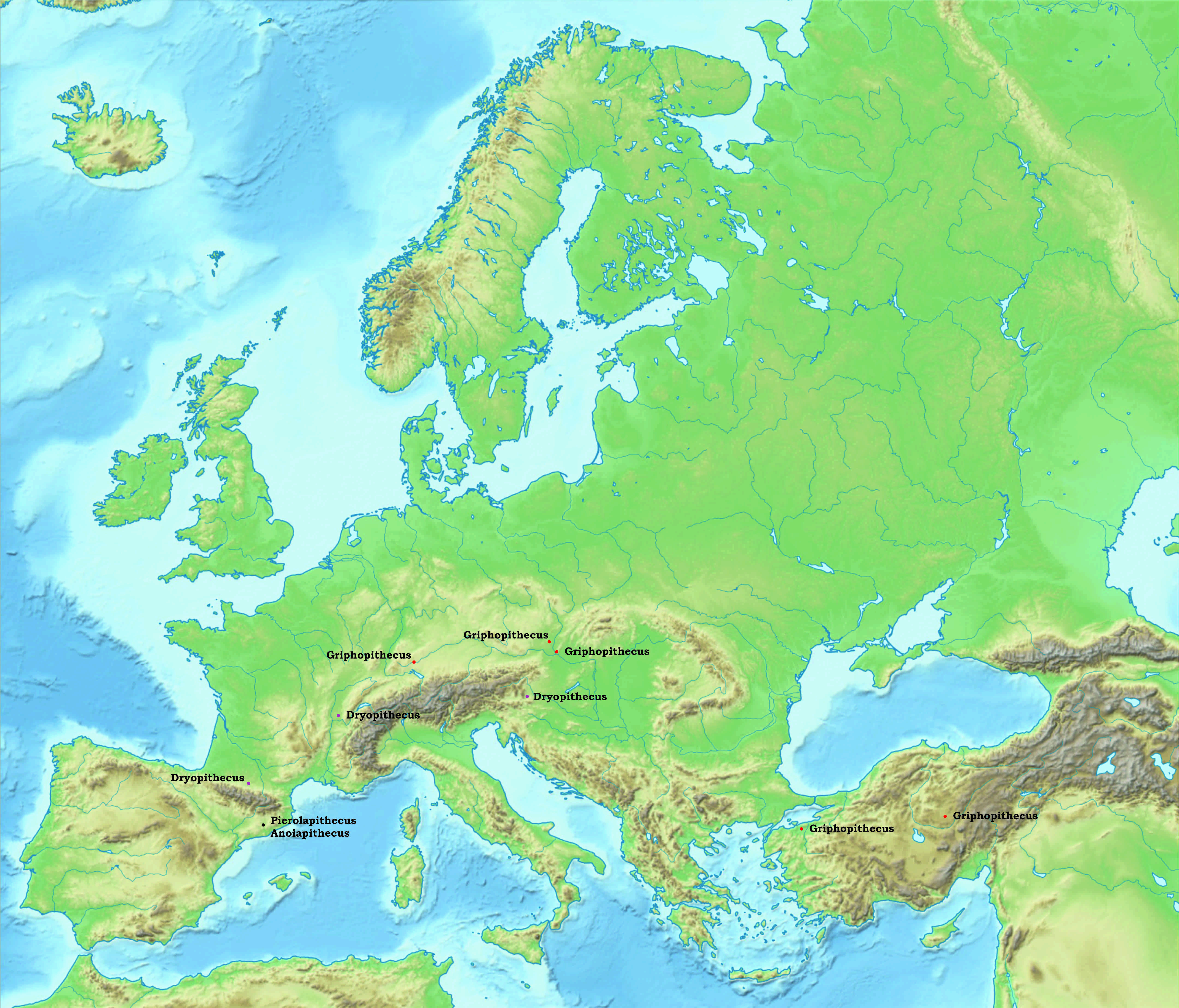 Paleoanthropological sites of middle miocene in Europe (16 - 11,5 Ma)